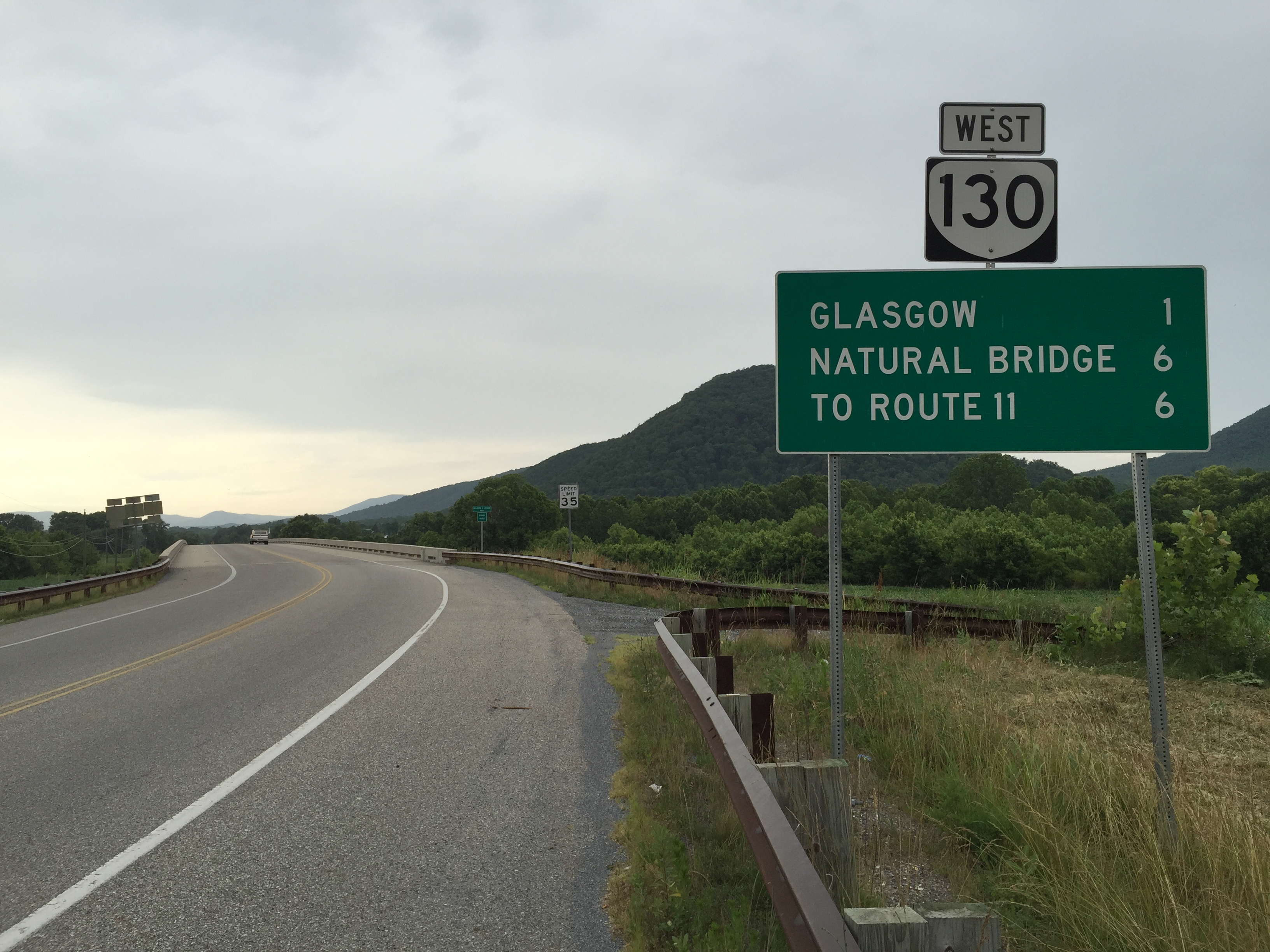 View west along Virginia State Route 130 (Wert Faulkner Highway) at U.S. Route 501 (Glasgow Highway) just east of Glasgow in Rockbridge County, Virginia